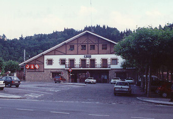 Photo of the train station of Beasain, Basque Country, Spain